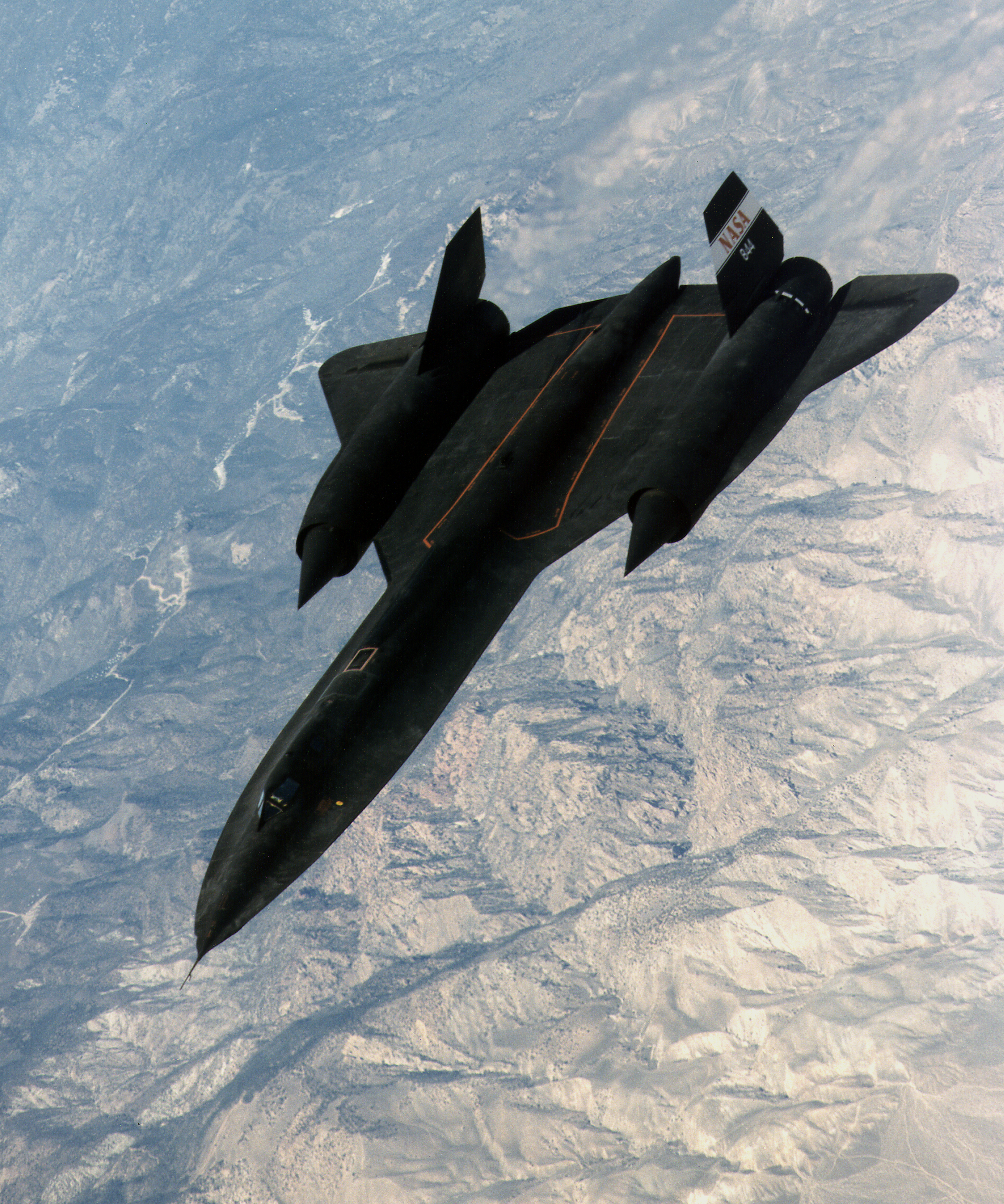 NASA Dryden Flight Research Center’s SR-71A, tail number 844, banks away over the Sierra Nevada mountains after air refueling from a USAF tanker during a 1997 flight.